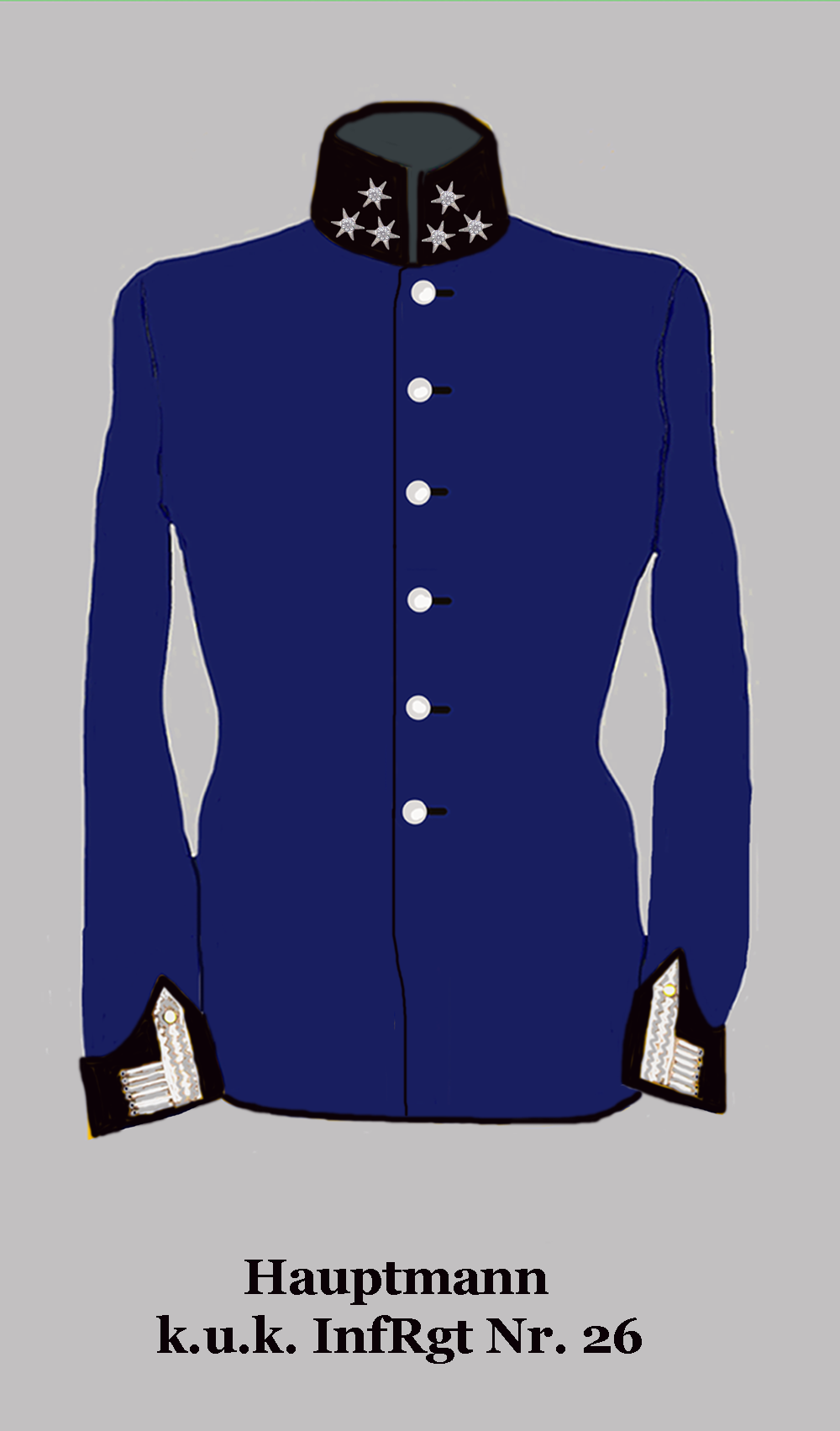 Tunic of a Captain of the Austria-Hungarian Infantry (Hungarian Regimnent)